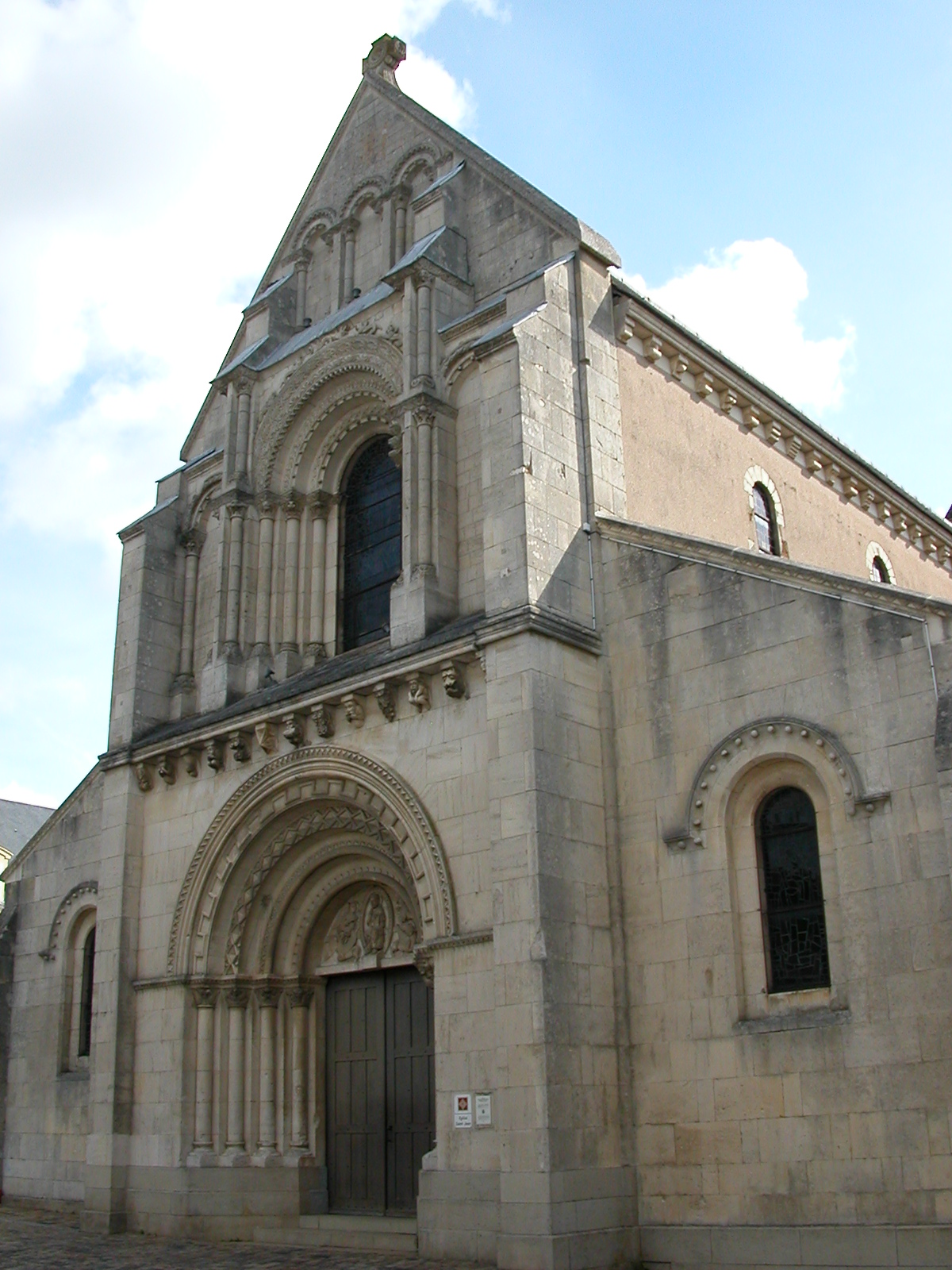 Façade of Saint-Jean church in Château-Gontier (XIth century)